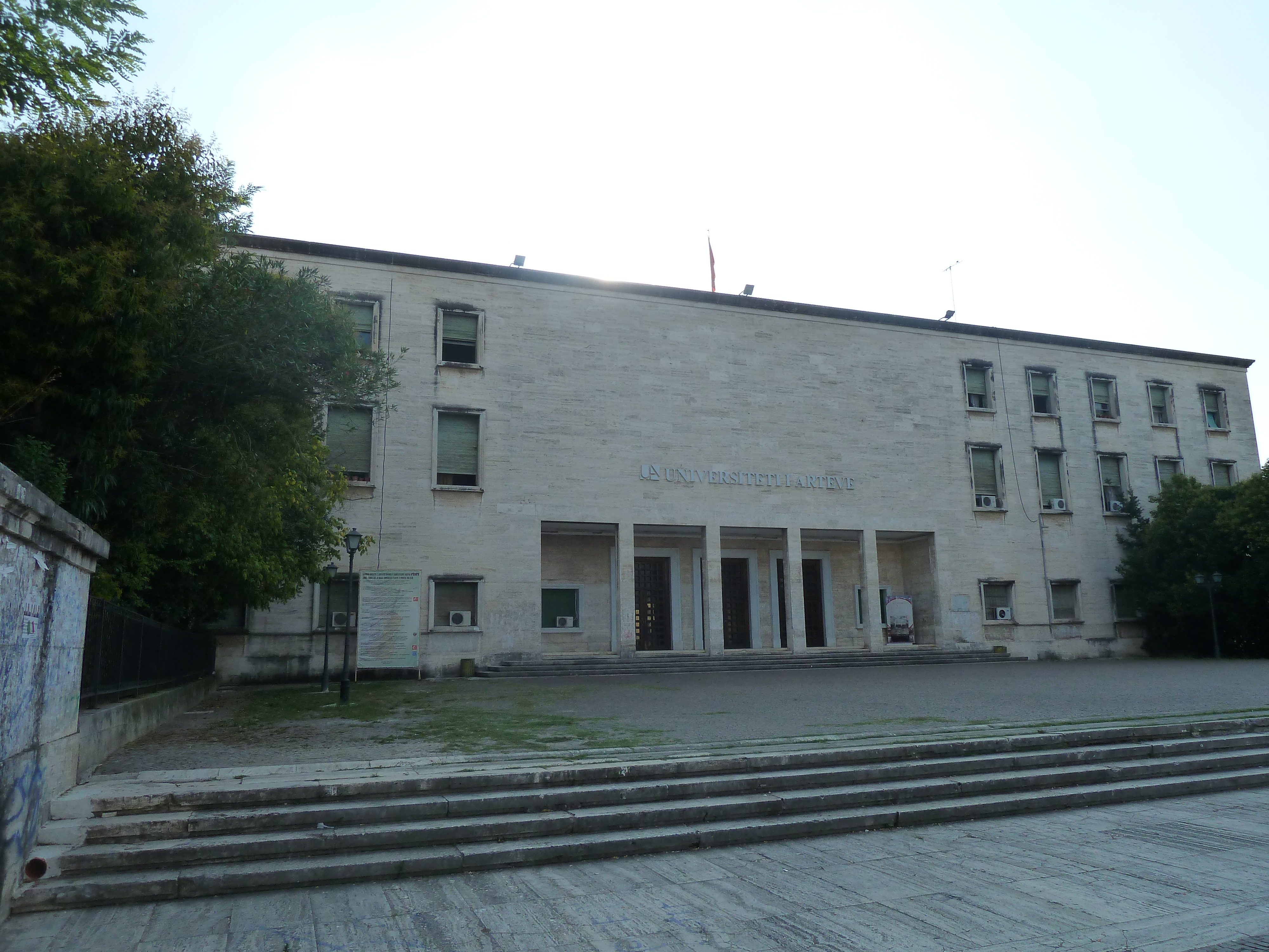 Universiteti i arteve (Faculty of Arts). Boulevardi Dëshmorët e Kombit, Tirana, Albania.